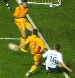 James Milner gets to the byline